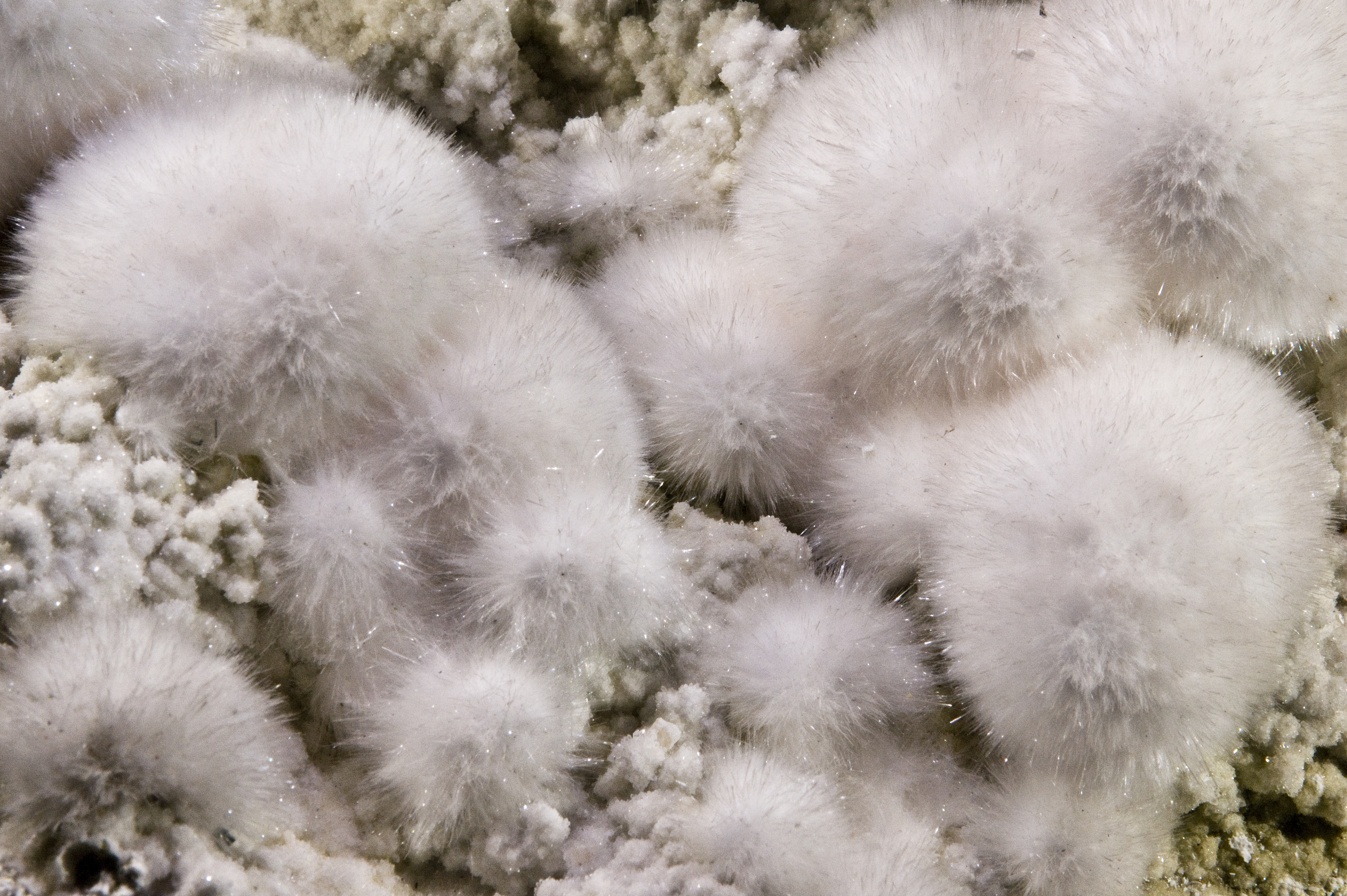 Okenite Locality : Khandivali, Maharashtra, India size view 14cm